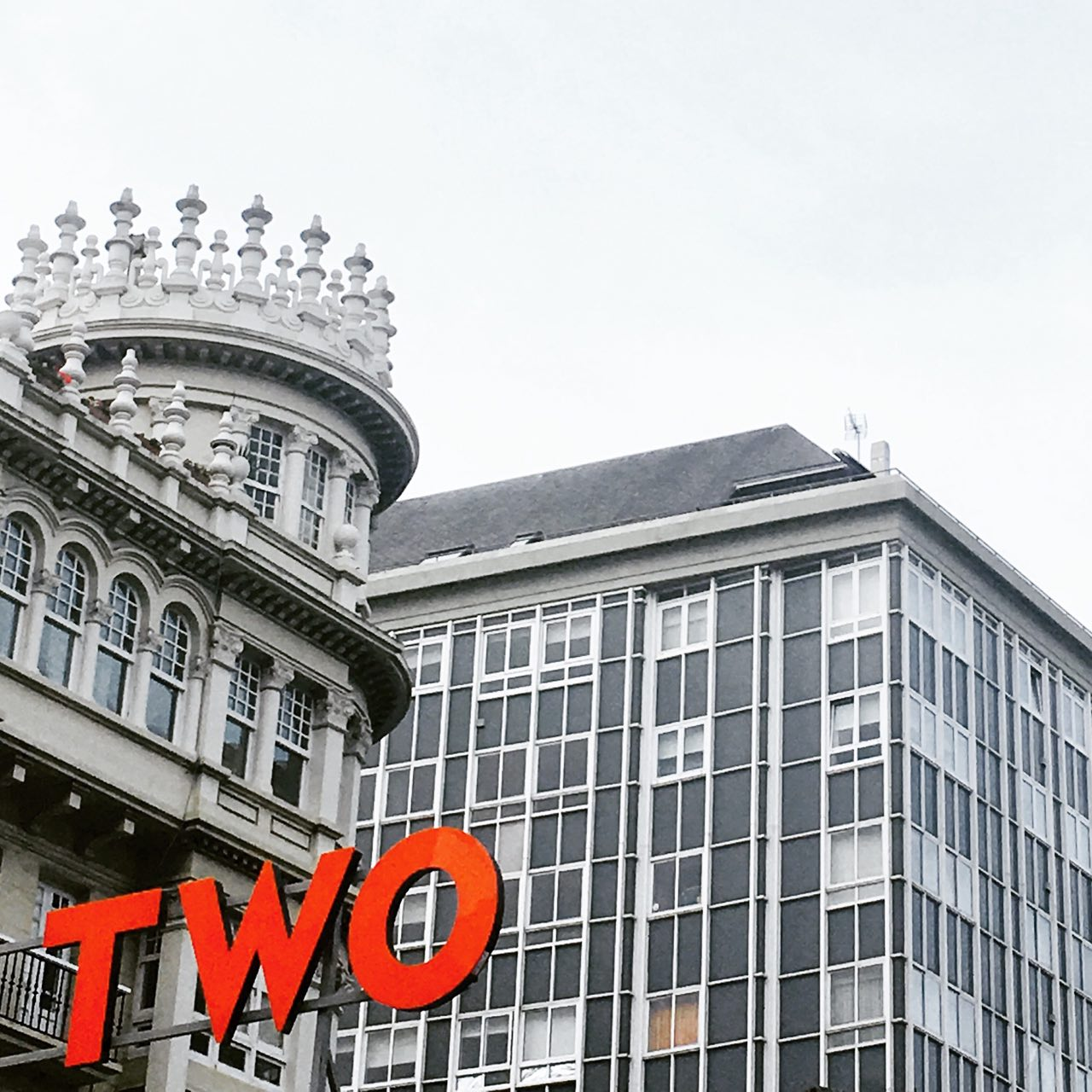 The Square Pontevedra in A Coruña Town.